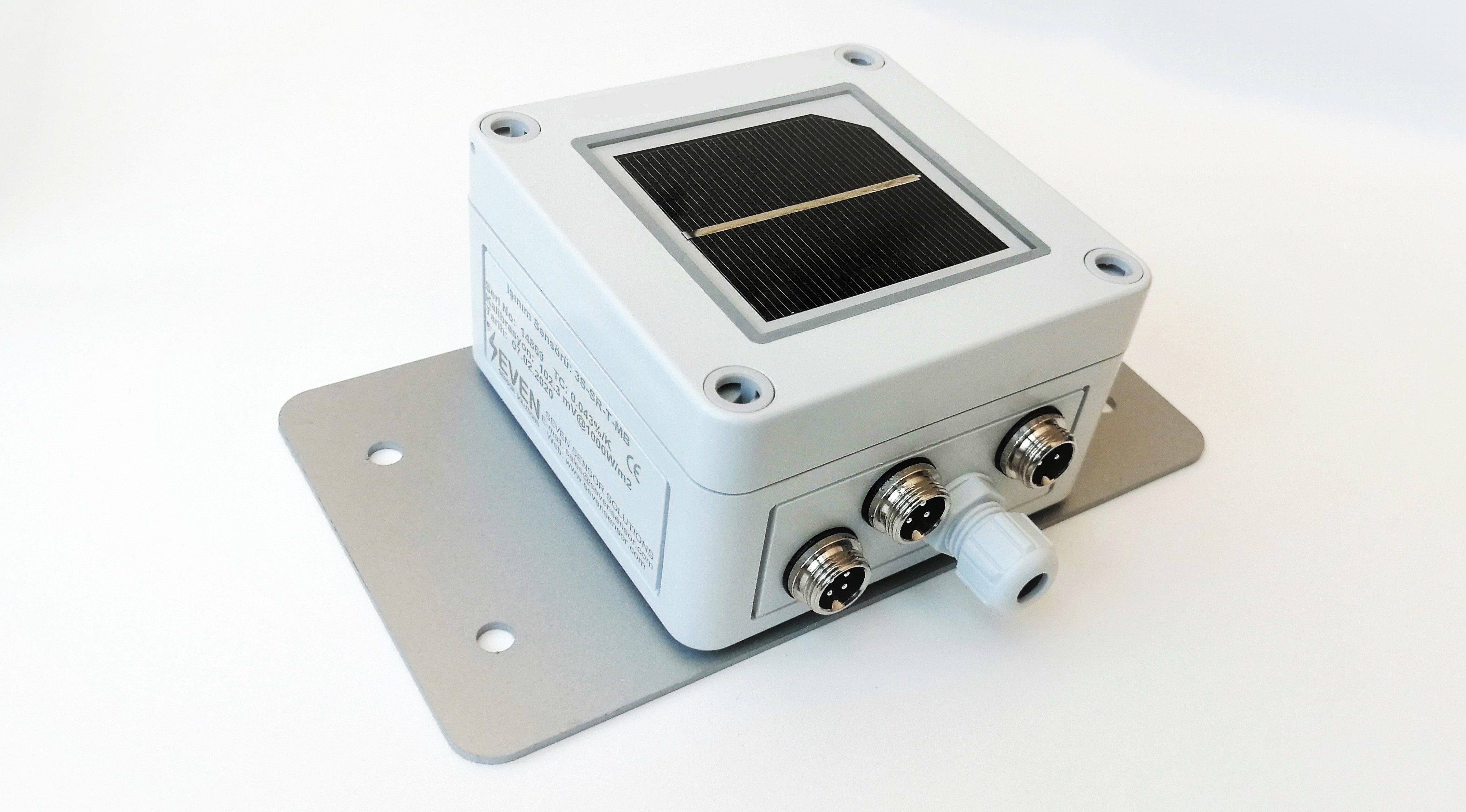 Solar Irradiance Sensor, Model: Seven Sensor